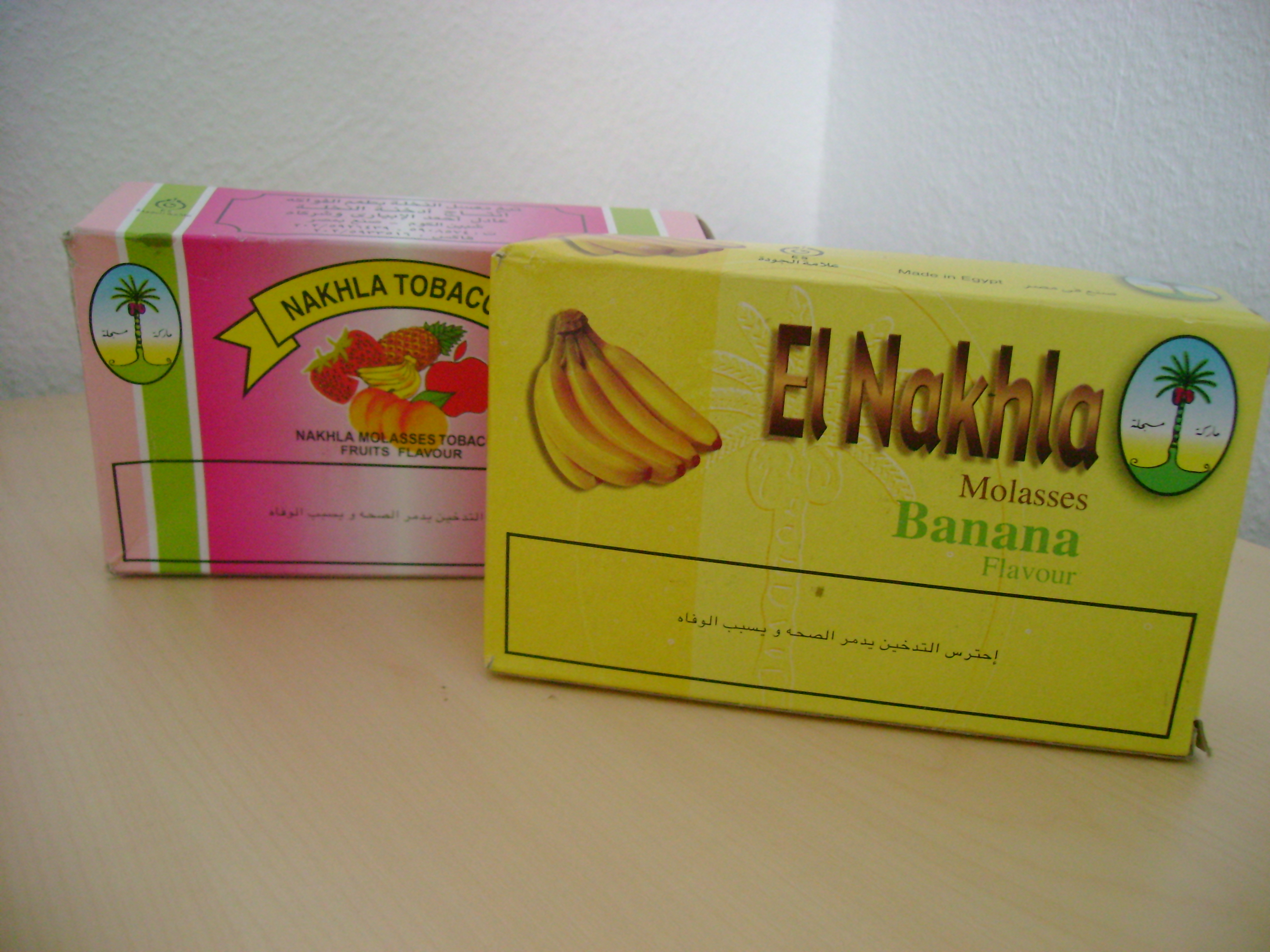 Nakhla Waterpipe Tobacco in two different Flavors